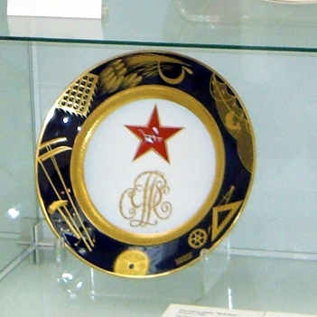 That photo was taken in the museum in London, England. See Mikhail Mikhailovich ADAMOVICH. The plate dates from 1920. I find it interesting because the poverty was such -- during and after the Russian Revolution -- that most people wouldn't have had decorative dishes like this. Hence, this 'communist' imagery actually was intertwined with social disparities. Right now, I don't have much of a sense of the messages that actually are conveyed on the plates, but I can say that the imagery and the text at least is tied to other messages about a revolution by and for common people -- who usually wouldn't have had plates like these